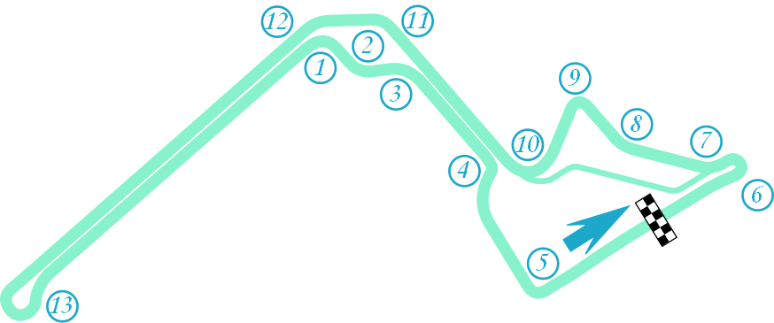 Brooklin Street Circuit Layout